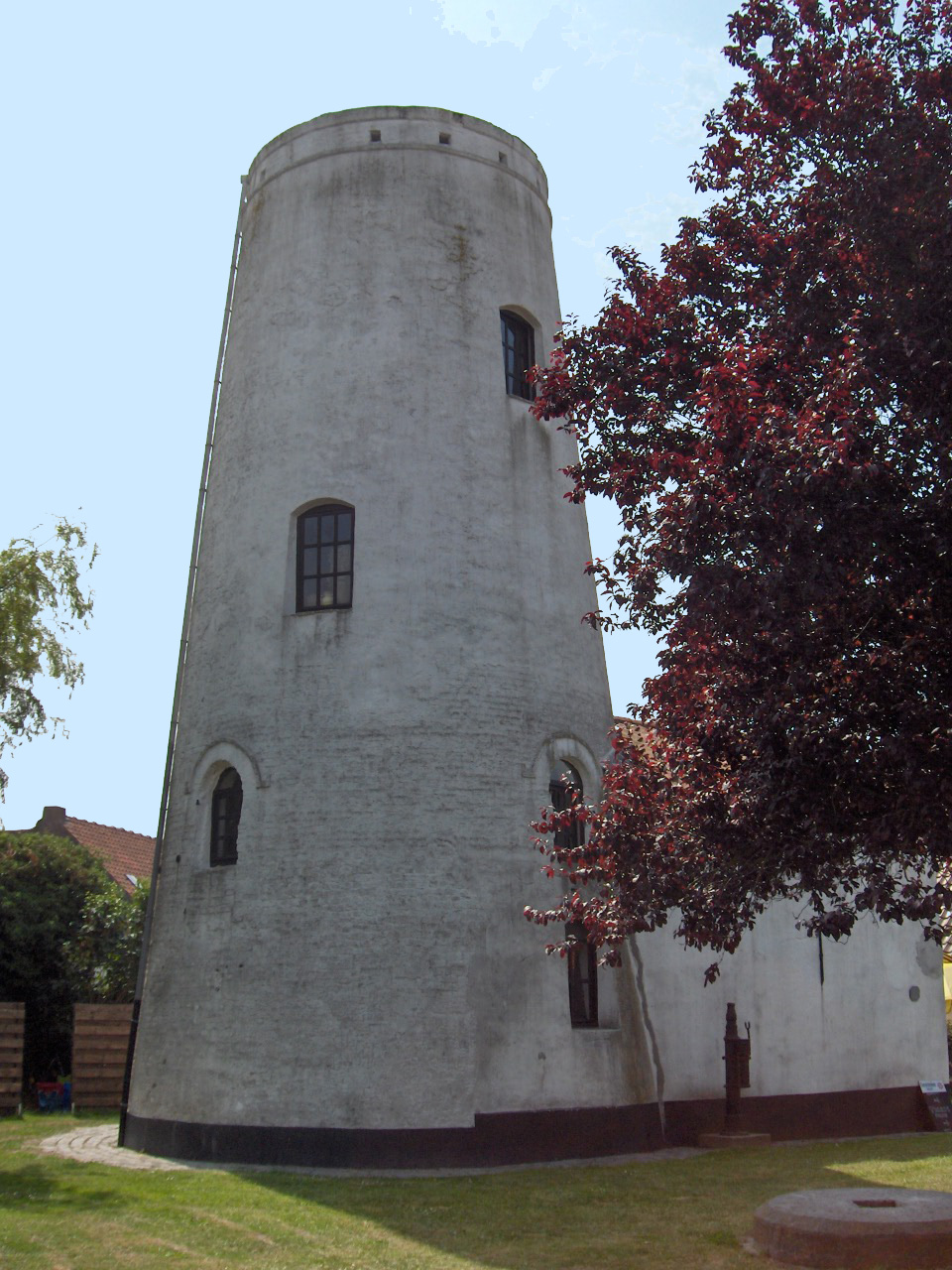 Windmill (sails blown off in 1927); Stene, Ostend, Belgium